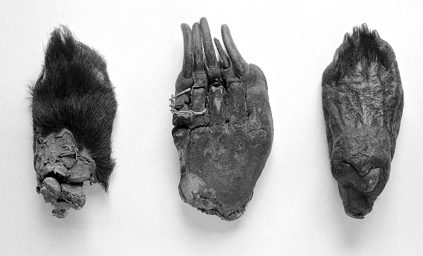 Bear's paws uased in China to ward off colds. Purchased in a Peking market in 1912. Wellcome Images Keywords: coryza; China; Materia Medica